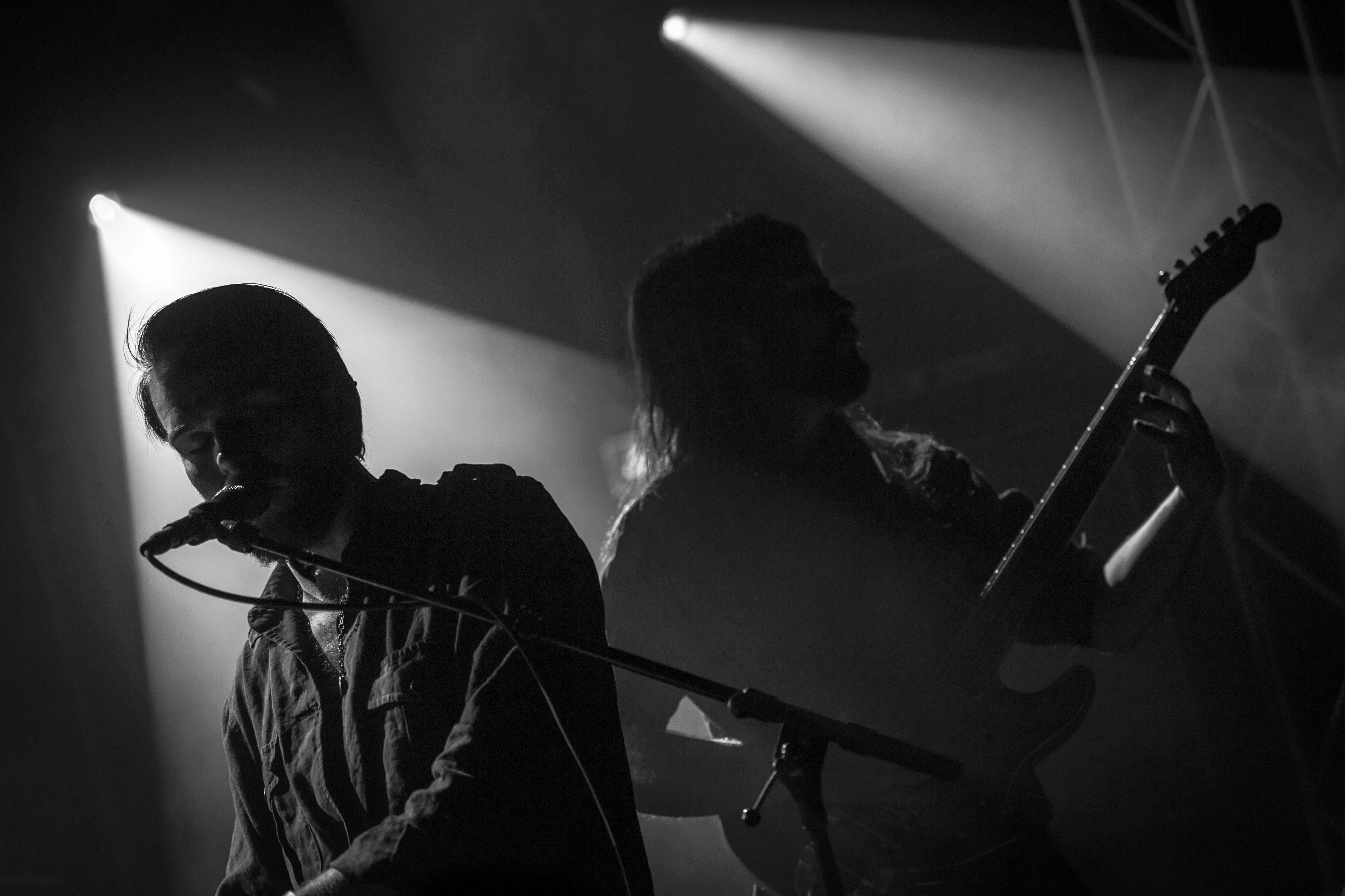 Kayo Dot performing at Roadburn Festival, april 2015